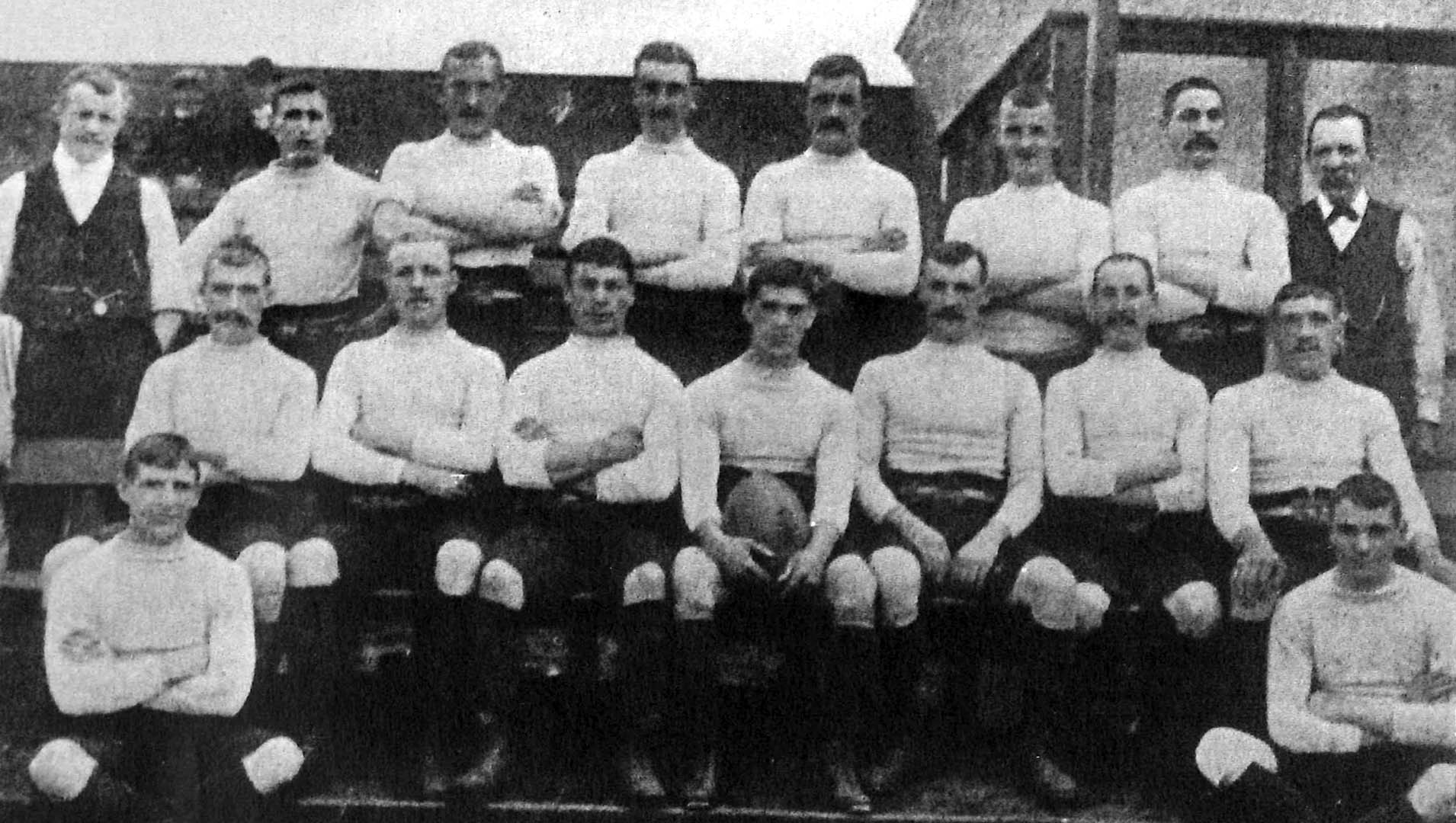 Team of Leeds Rhinos of the 1899-1900 season.